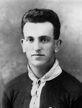 Duncan Thompson en 1925, treiziste.